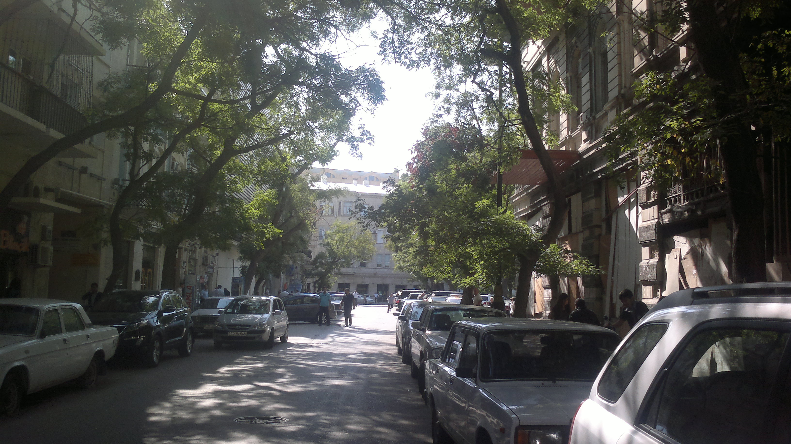 Uzeyir Hajibayov Street in Baku